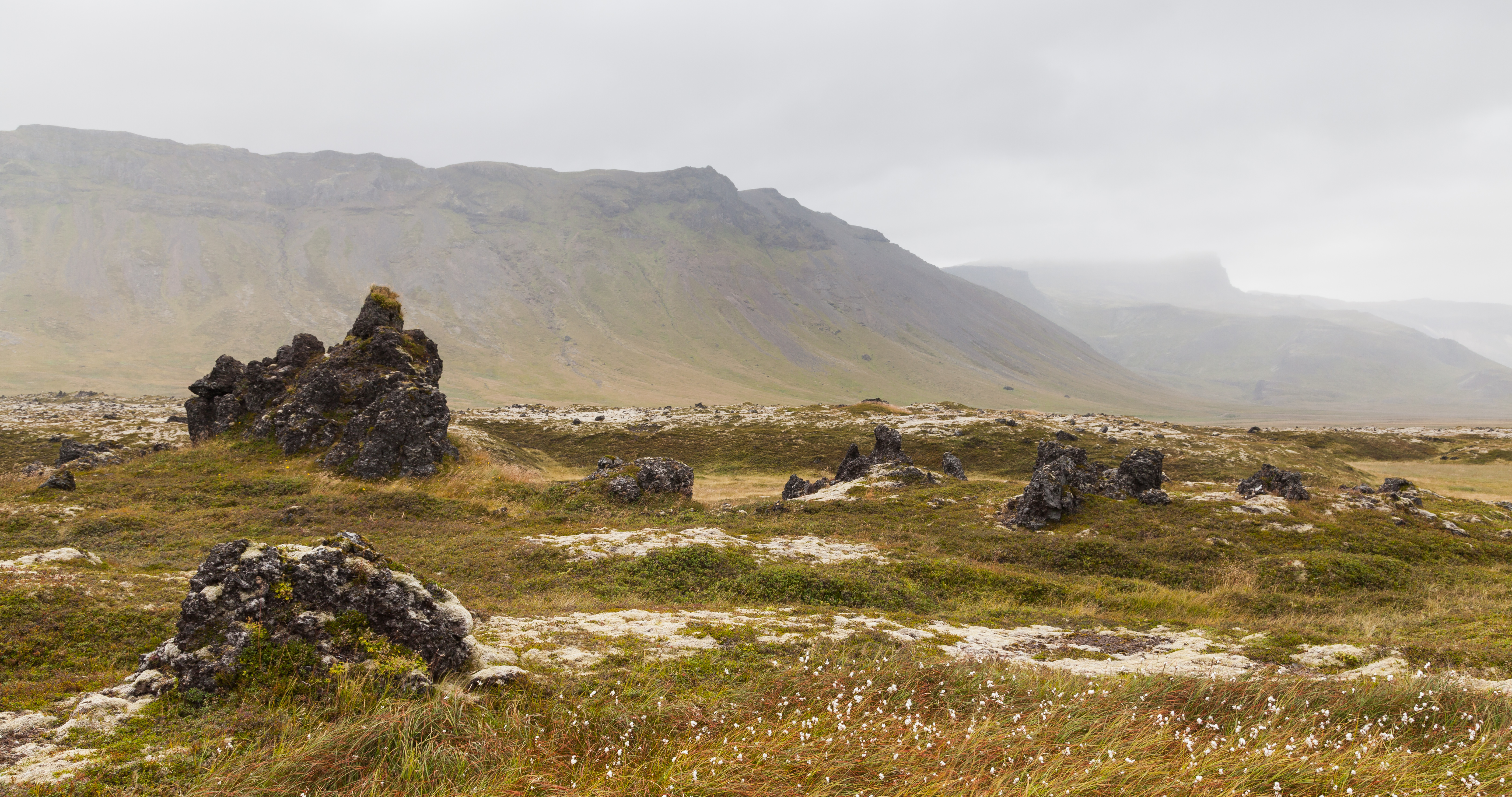 Region of Búðahraun, Vesturland, Iceland